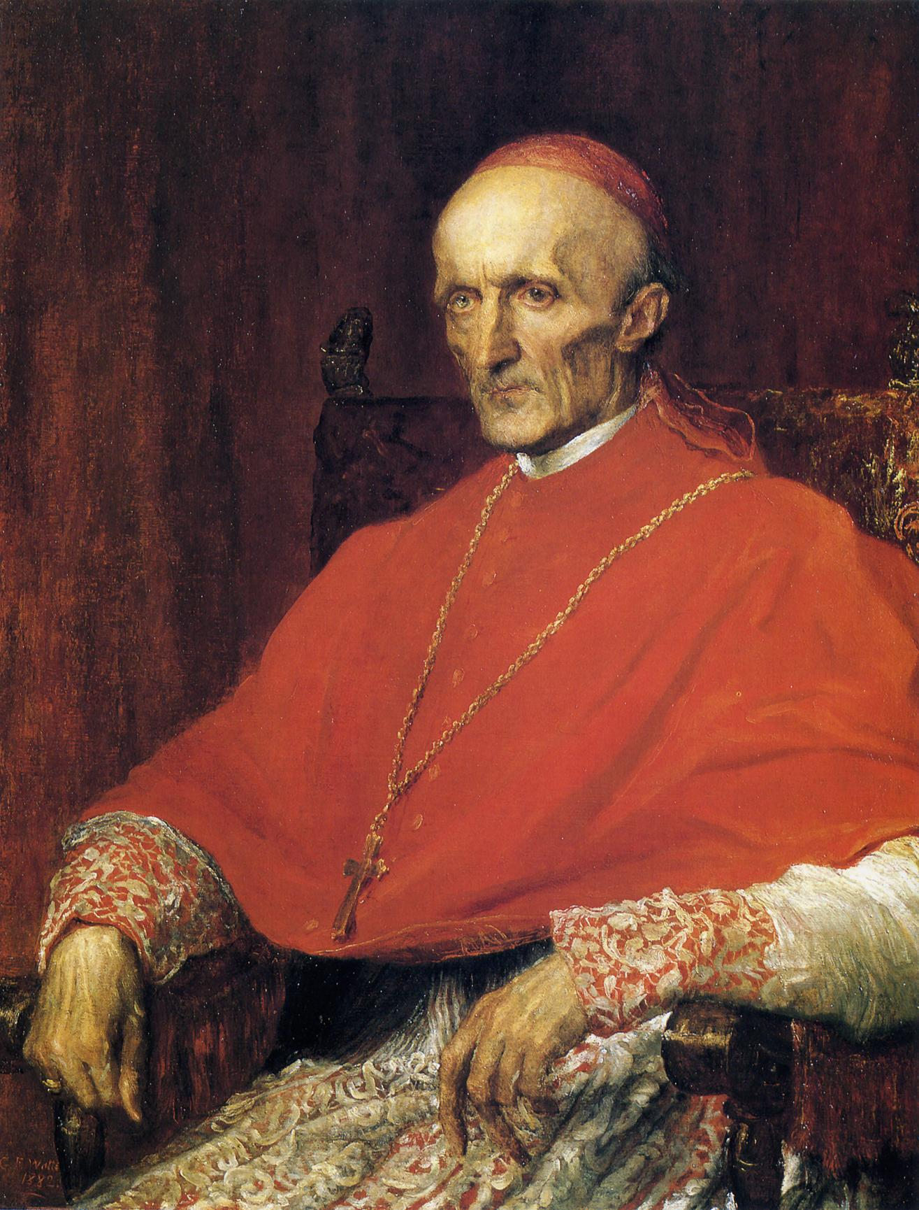 Portrait of Henry Edward Manning (1808-1892)